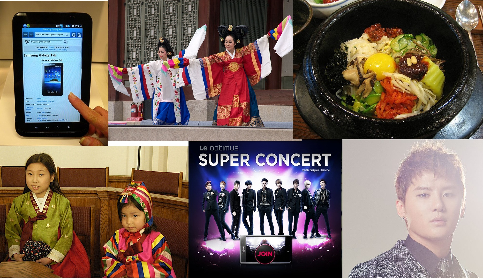 Different aspects of Korean culture